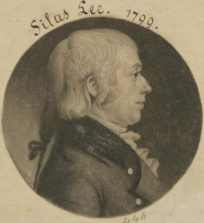 Silas Lee (Massachusetts Congressman)